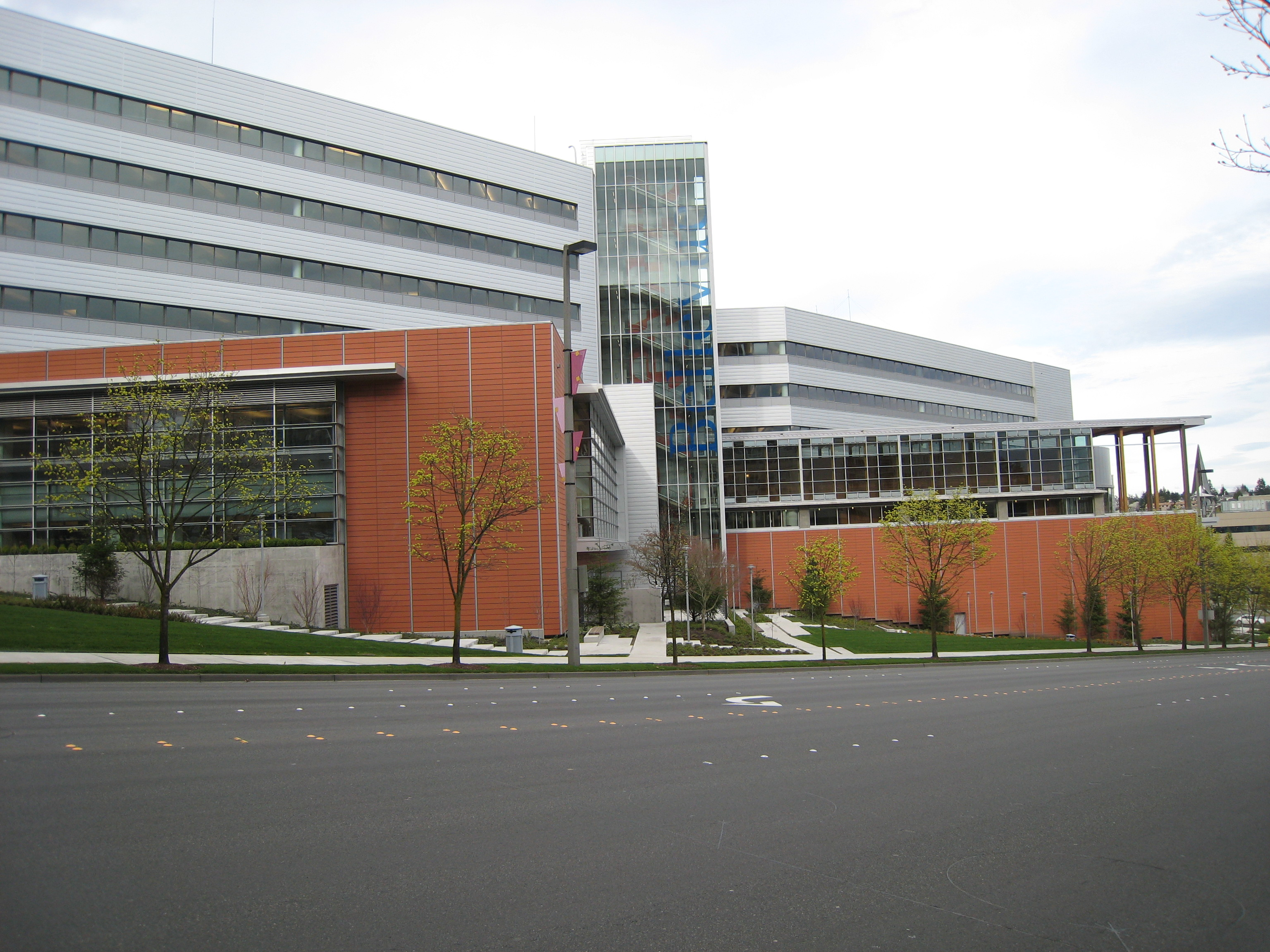 Bellevue City Hall in Bellevue, Washington